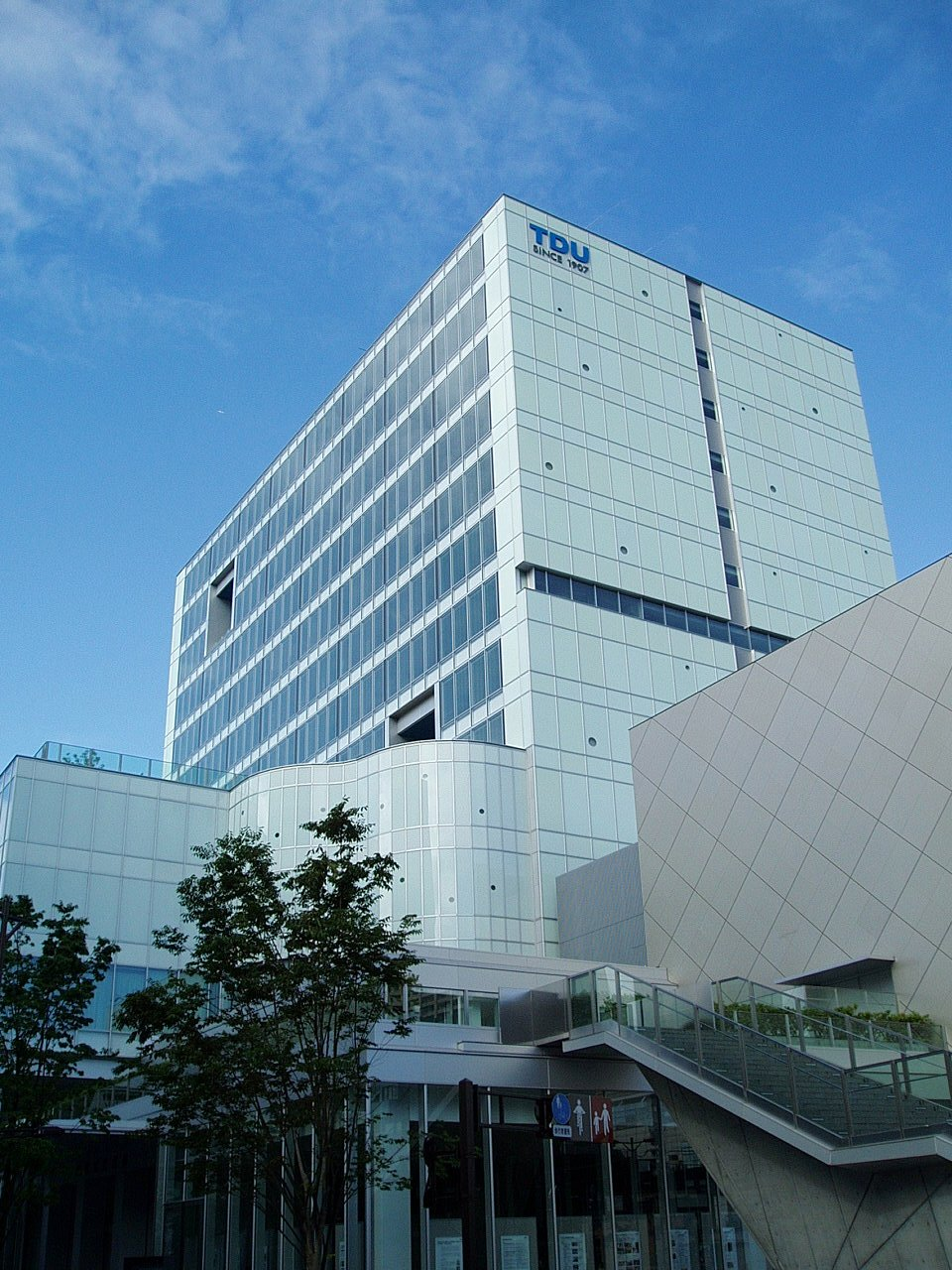 Bldg. 1 at Tokyo Senju Campus, Tokyo Denki University, located in Adachi-ku, Tokyo, Japan.